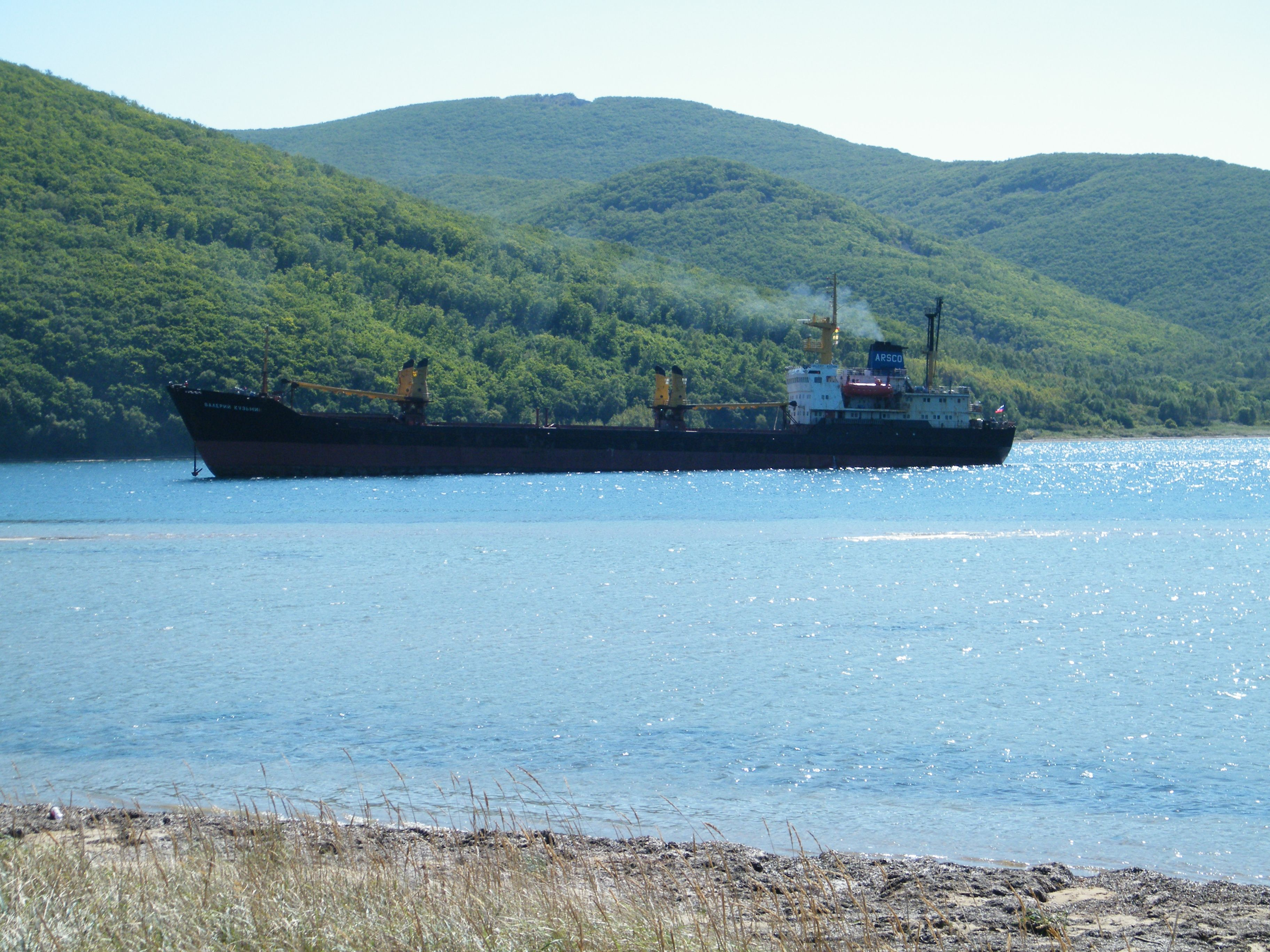 Olga Bay